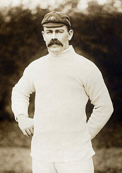 Sport, Cricket, Circa 1905, A picture of Joseph Darling who played for South Australia and Australia